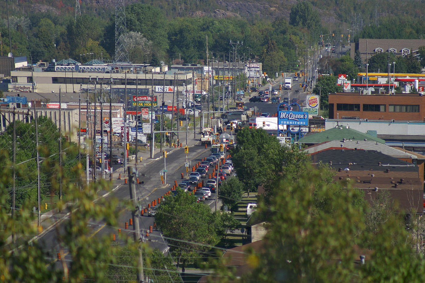 City view